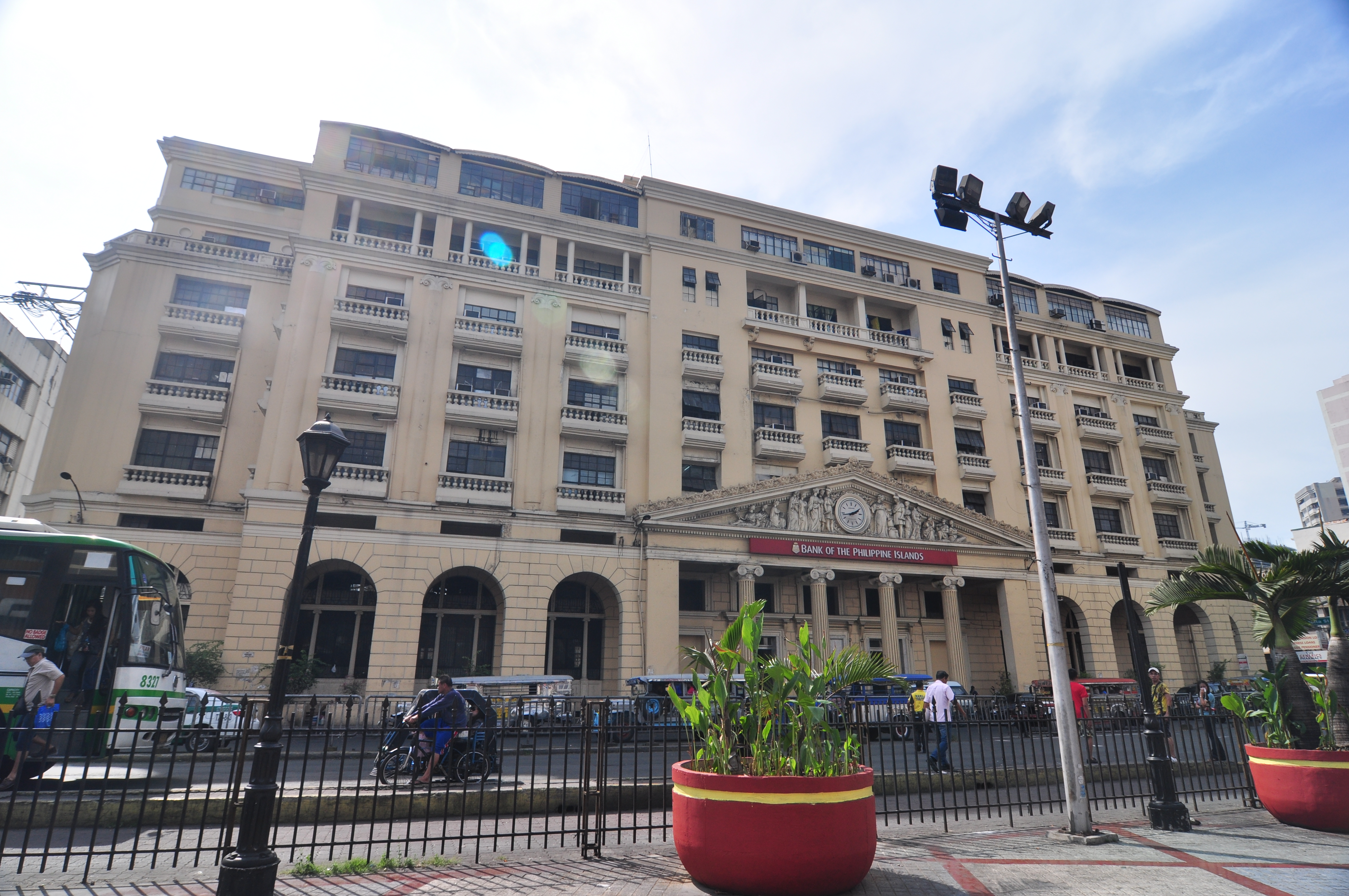 B22: Bank of the Philippine Islands Escolta-Santa Cruz Branch in Manila, Philippines